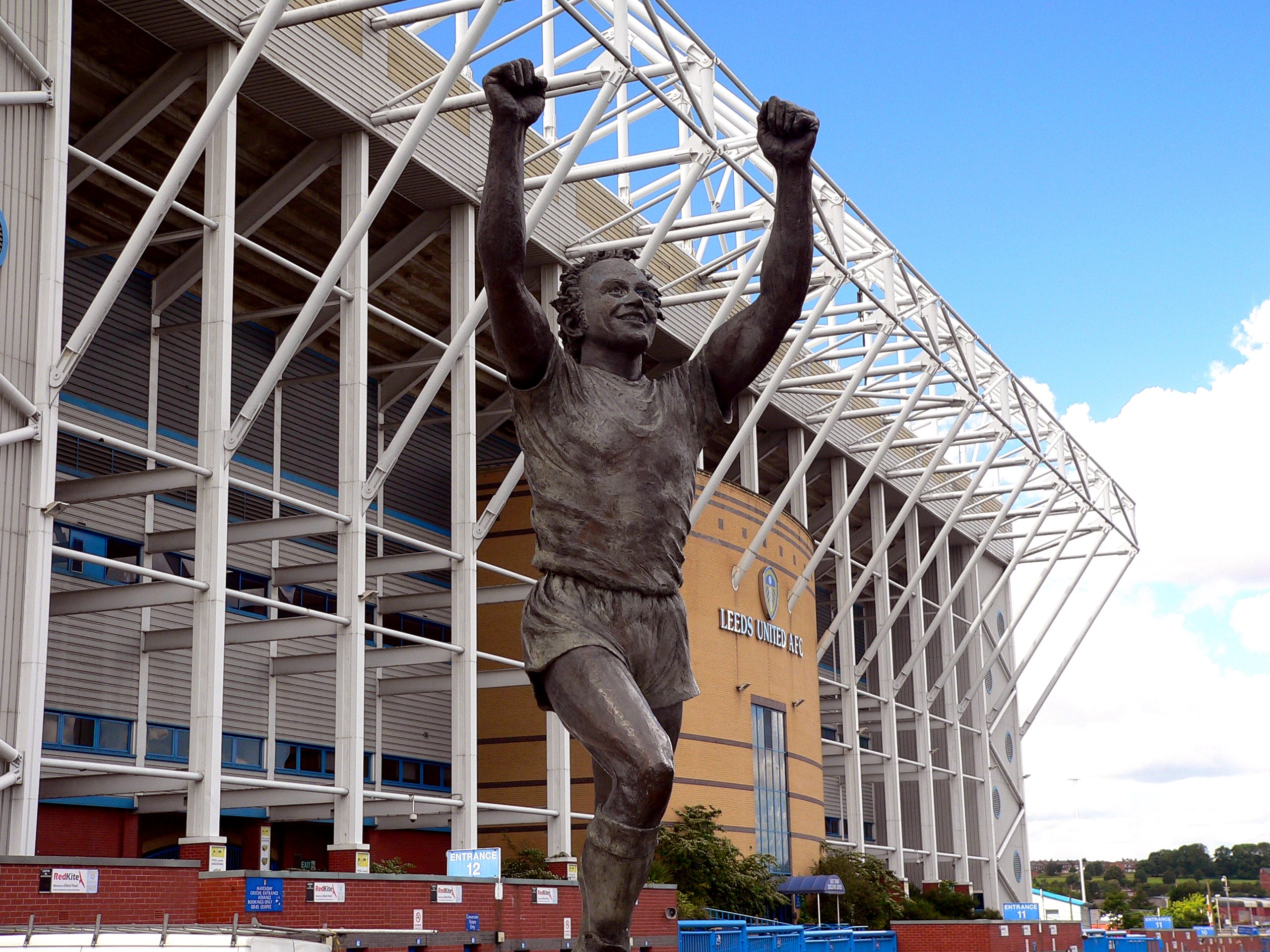 Billy Bremner statue